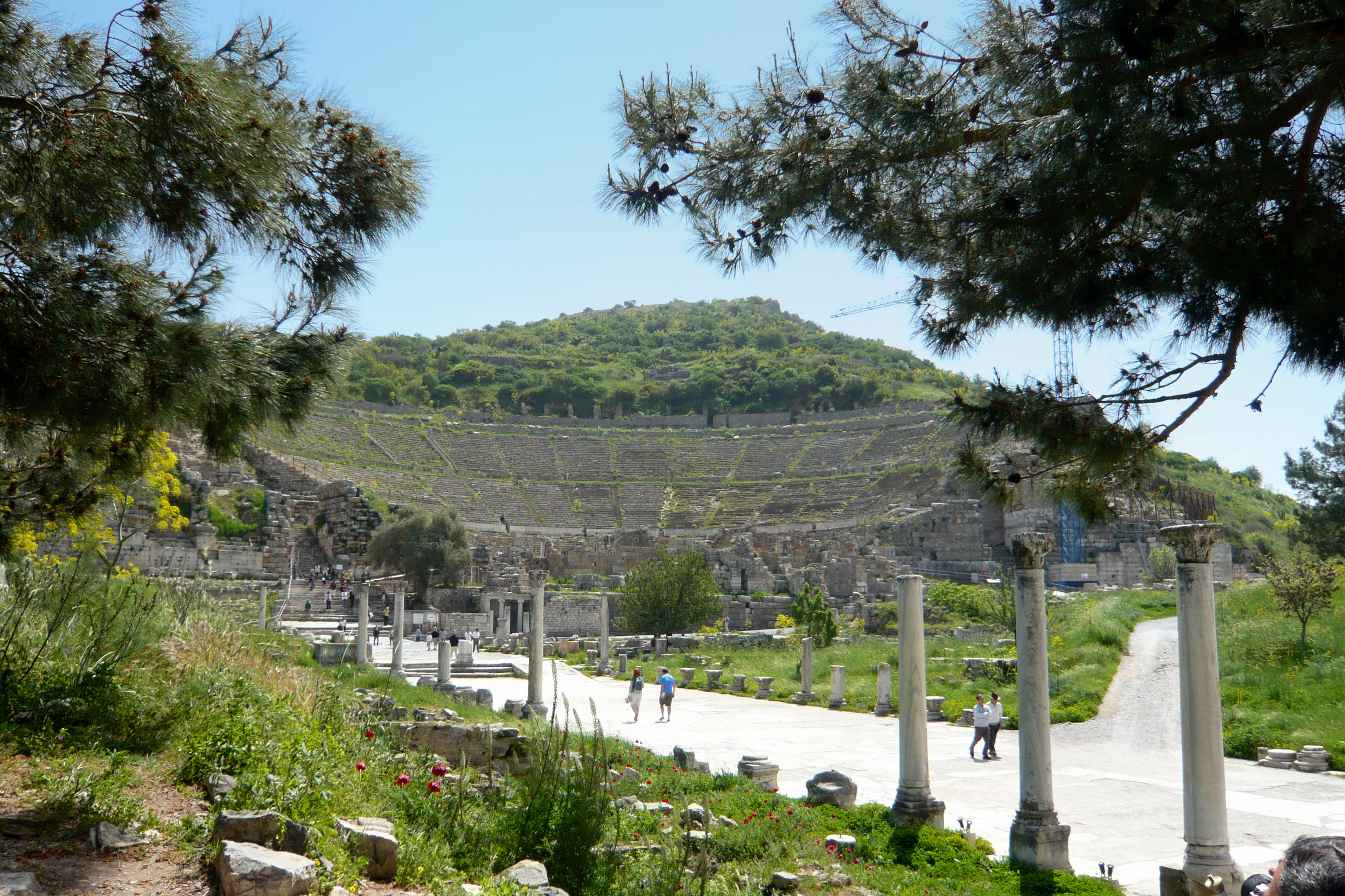 Great theater, Ephesus, Turkey